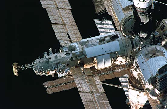 Overall view of Kvant-2. Photo taken by STS-79.